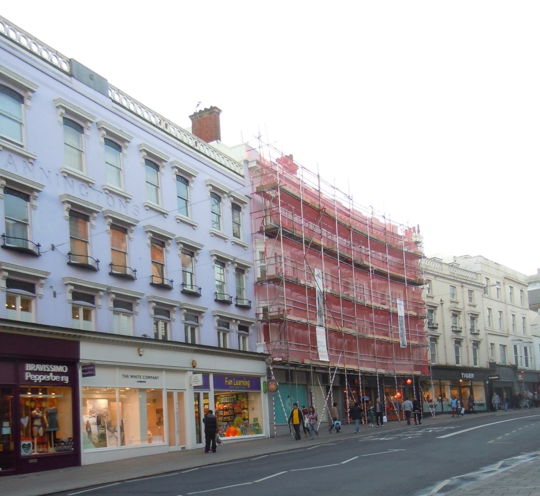 Former Hanningtons Department Store, East Street/Market Street/North Street, Brighton, City of Brighton and Hove, East Sussex. Founded in 1808 by Smith Hannington. Continued as a department store until 2001. Listed at Grade II by English Heritage (IoE Code 480663). This section is 3–14 North Street.